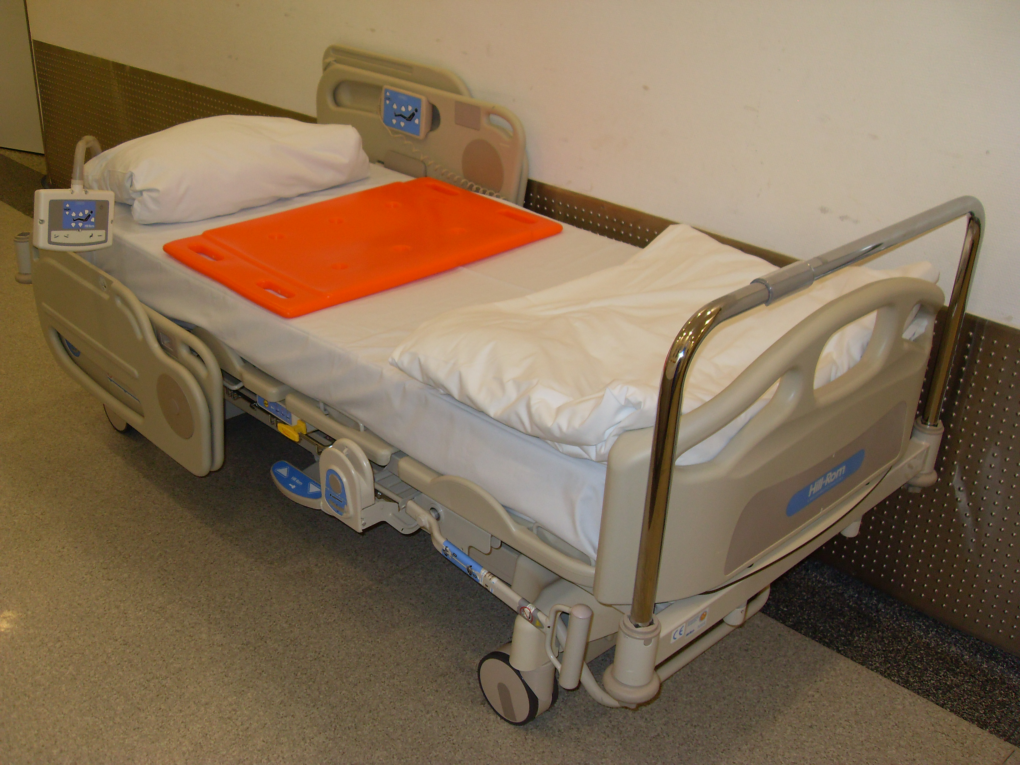 electrically moved hospital bed 2011 with cpr/resuscitation board on it